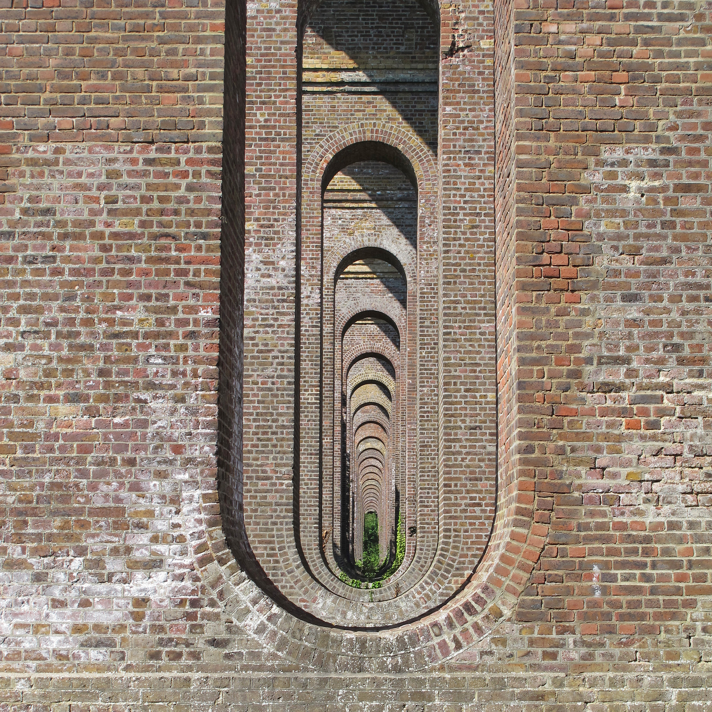 Under the arches, Chappel Viaduct